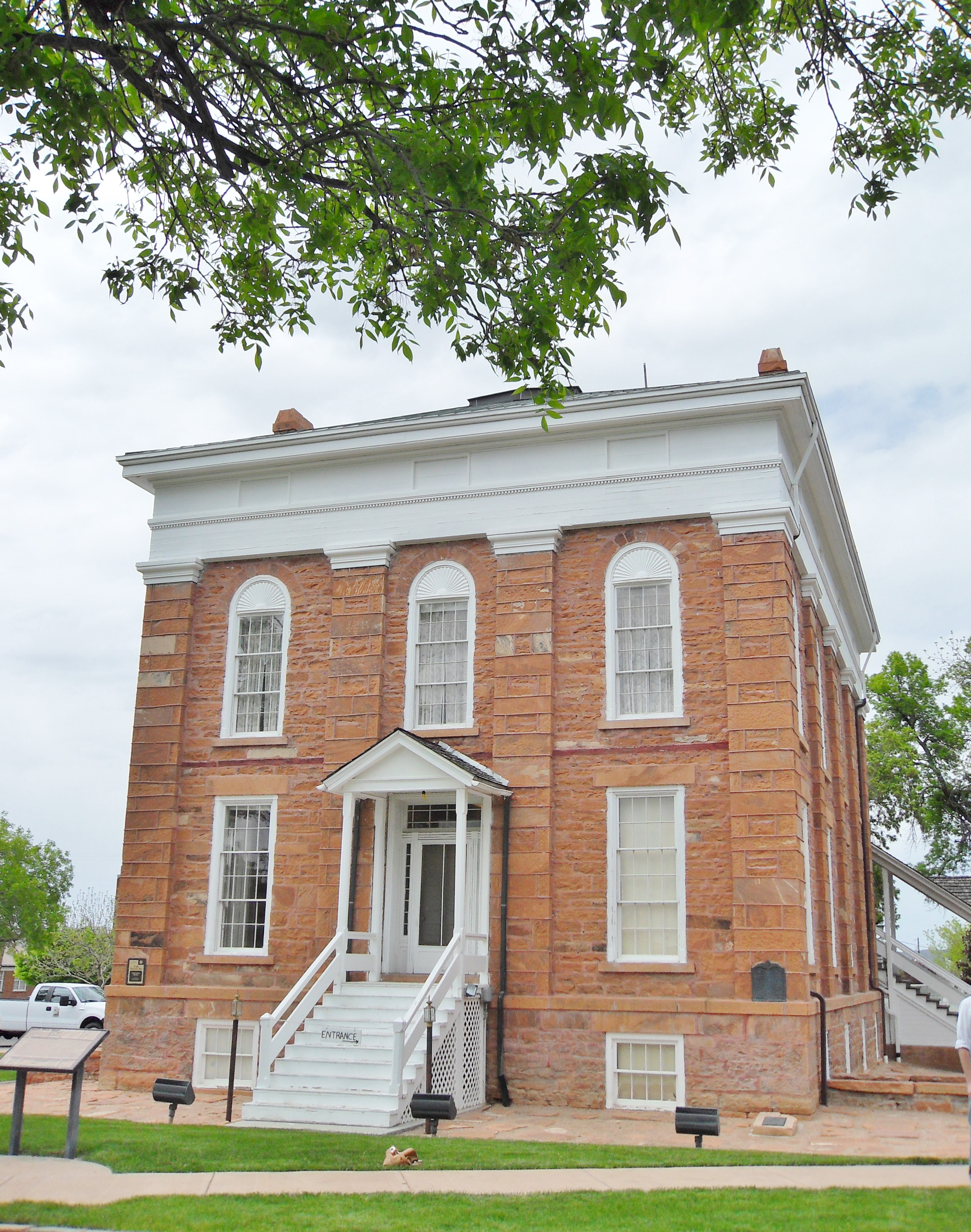 A view of the front of the Utah Territorial Statehouse in Fillmore, Utah.